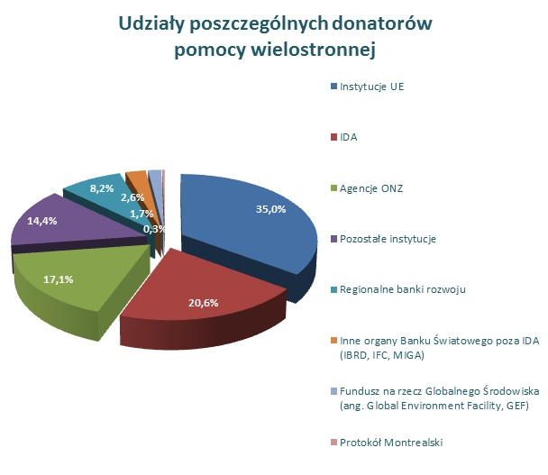 Udziały poszczególnych donatorów pomocy wielostronnej